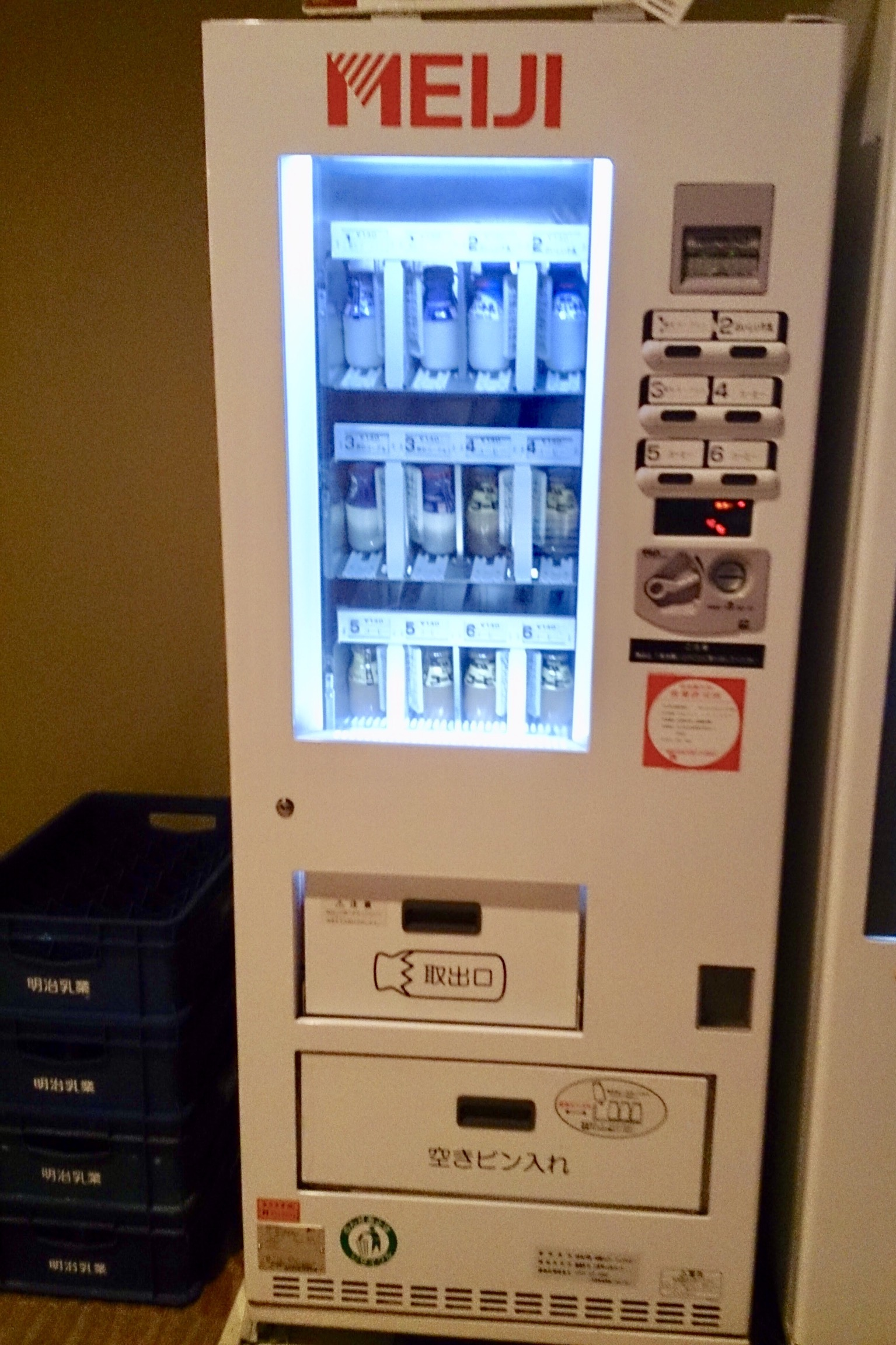 Meiji milk's Vending machine